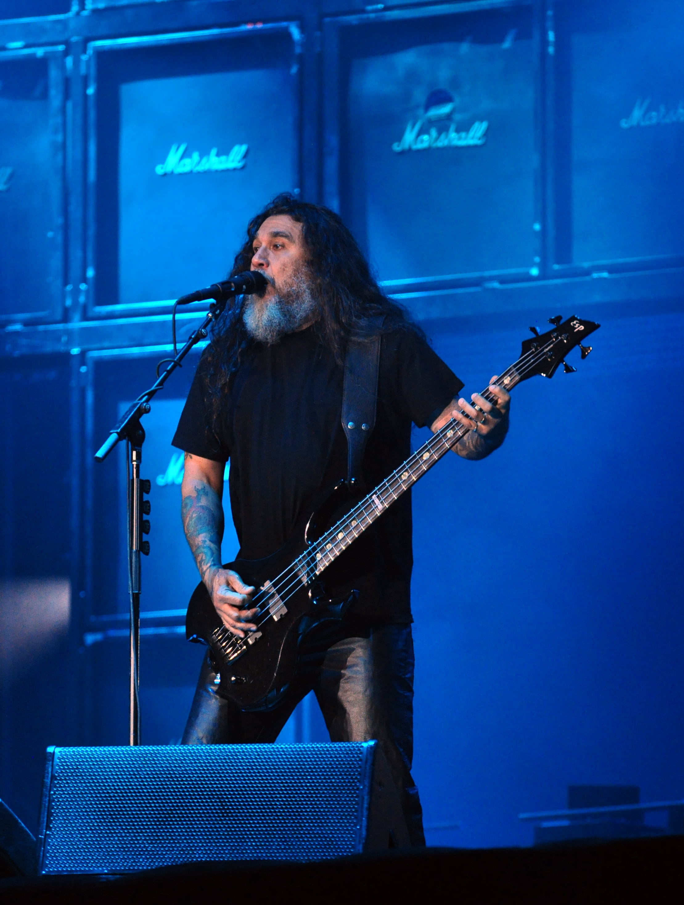 Slayer at Wacken Open Air 2014